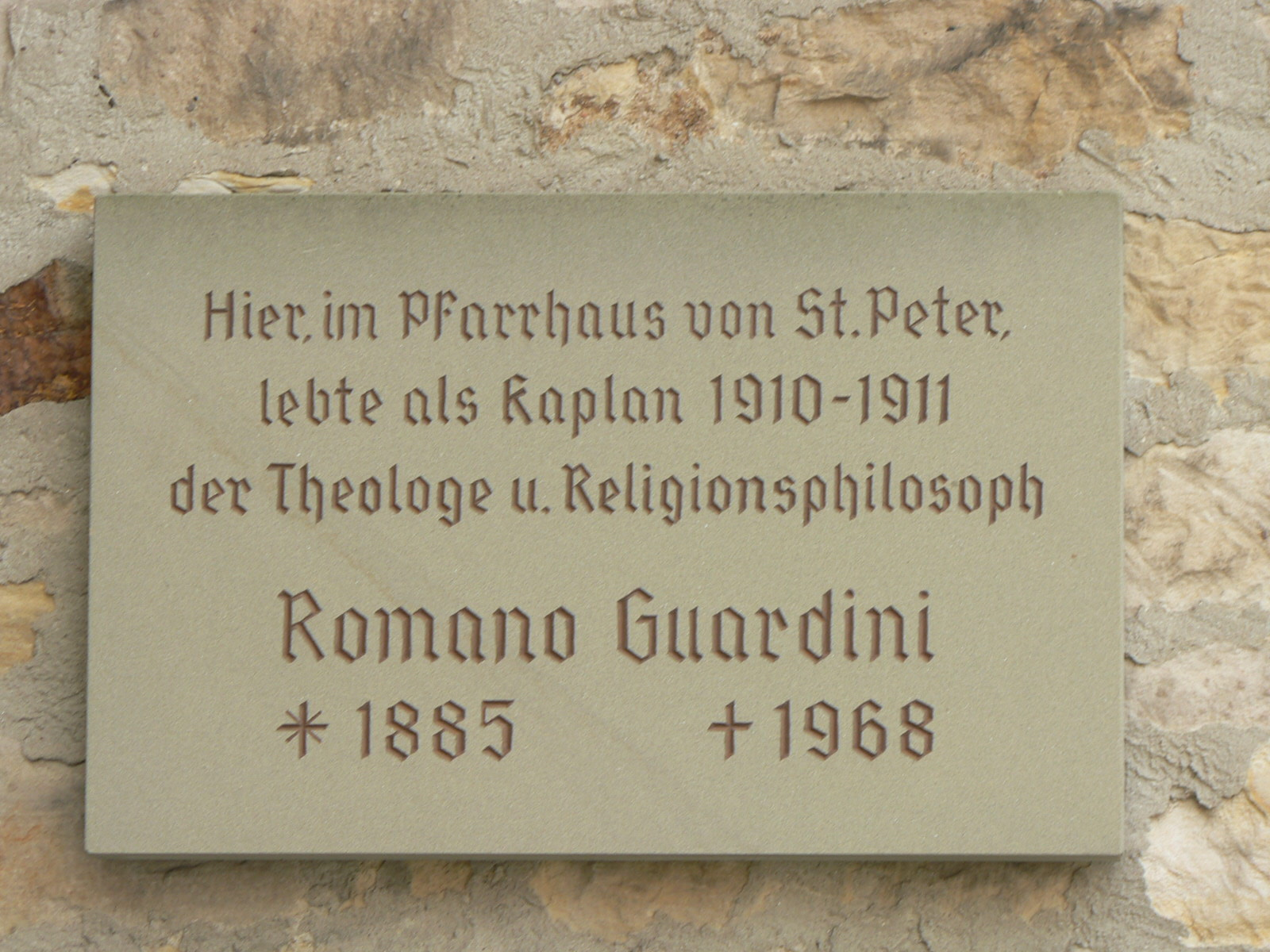 Memorial of Romano Guardini at the Church of Heppenheim (Bergstrasse)